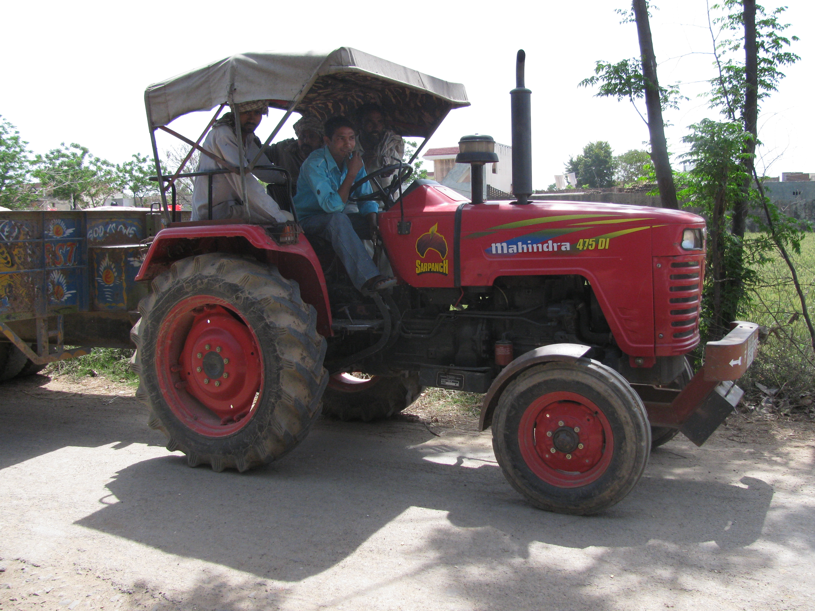 Farmers of India